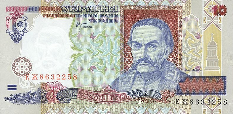 10 Hryvnia banknote (Ukraine), 1994/2000, front